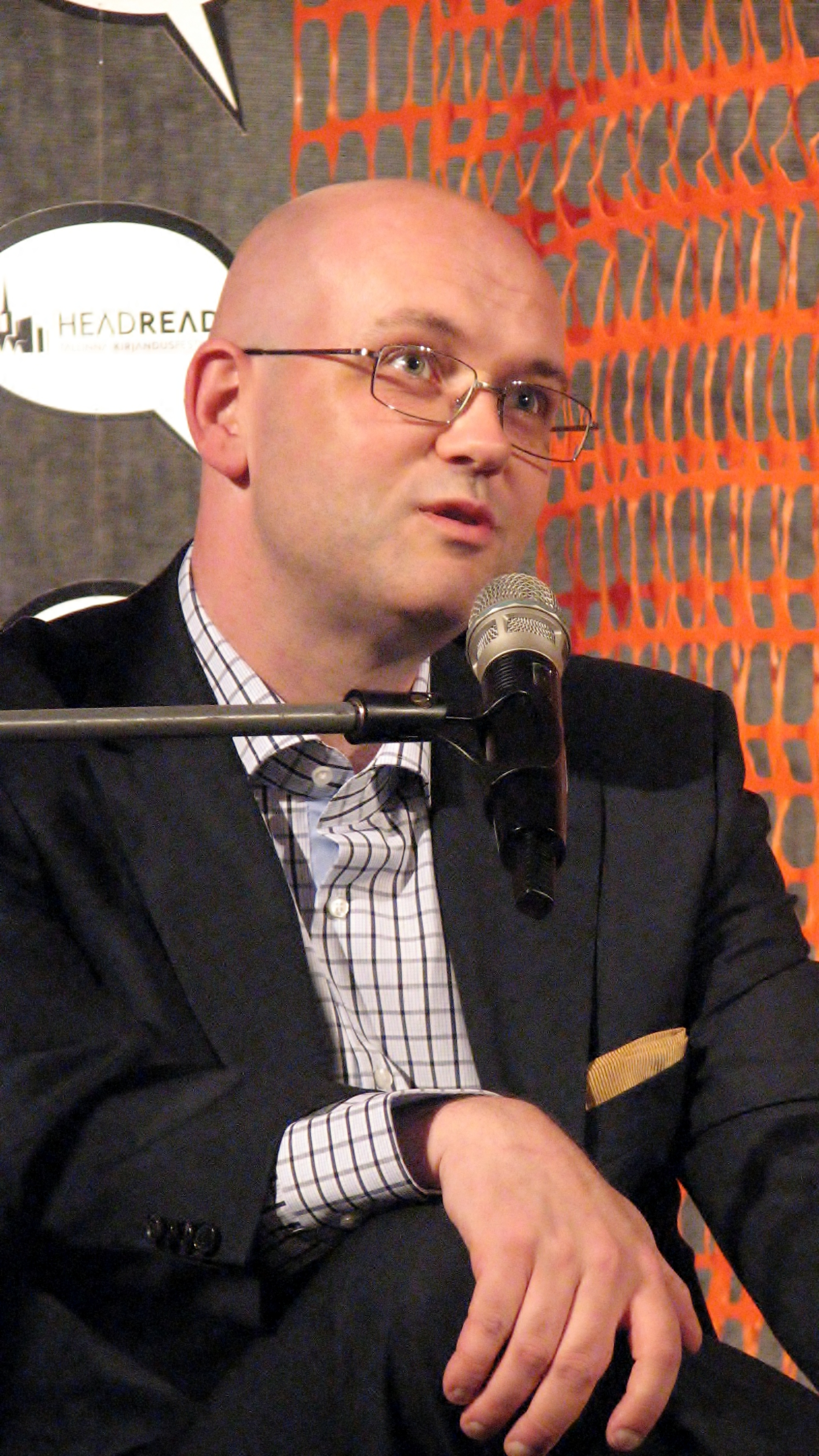 Lars Svendsen performing in HeadRead festival